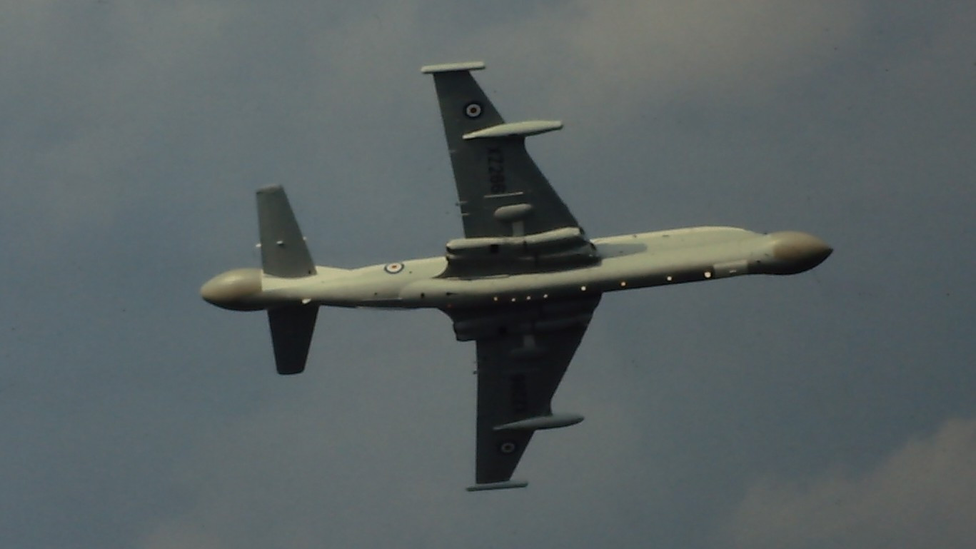 Hawker Siddeley Nimrod AEW3 serial number XZ286 at the 1980 Farnborough Air Show